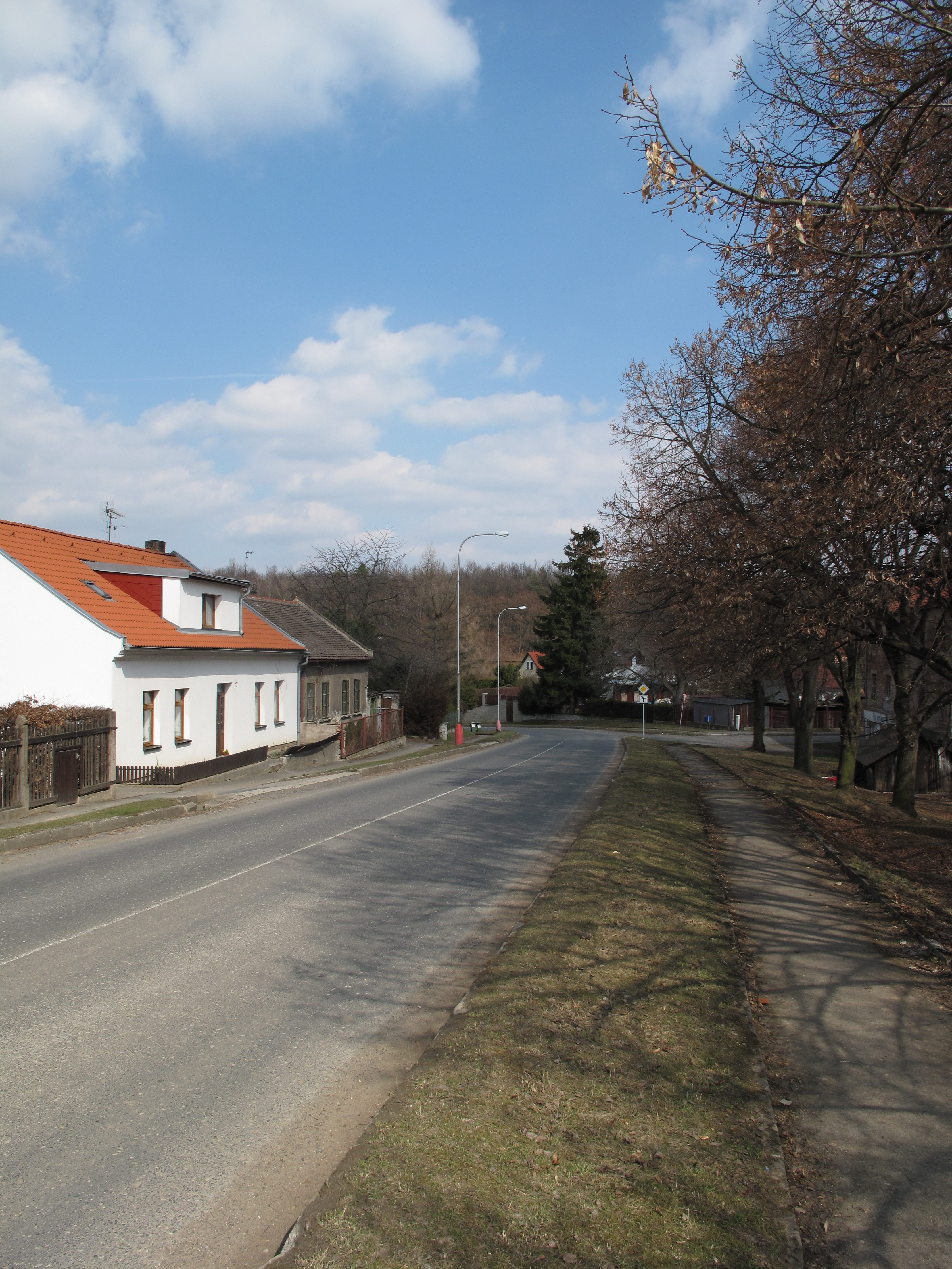 Táborská Street in Vrchlice village (part of Kutná Hora town), Kutná Hora District, Czech Republic.